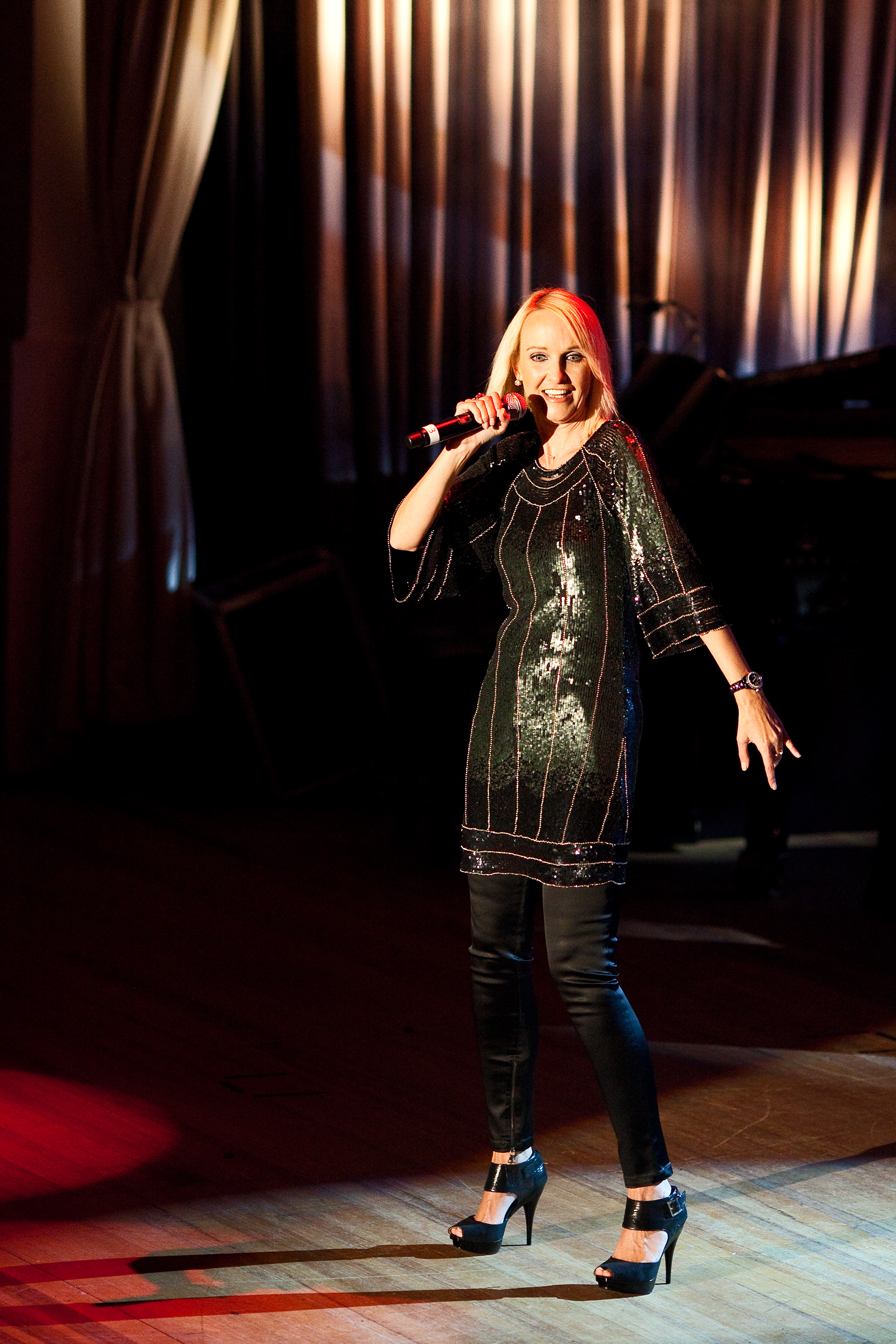 Kristina Bach, singer